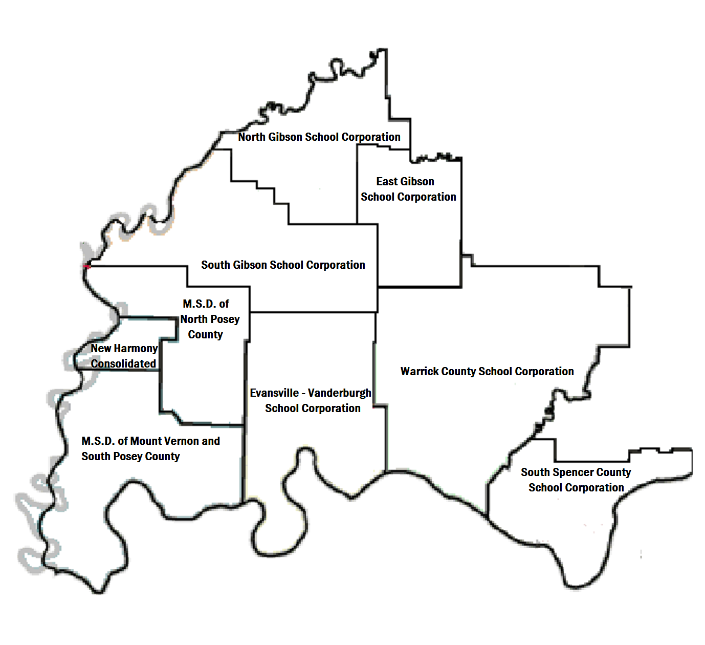 Indiana Area Career & Technical District #46 - The Region Served by the Southwest Indiana Career & Technical Center in Evansville.